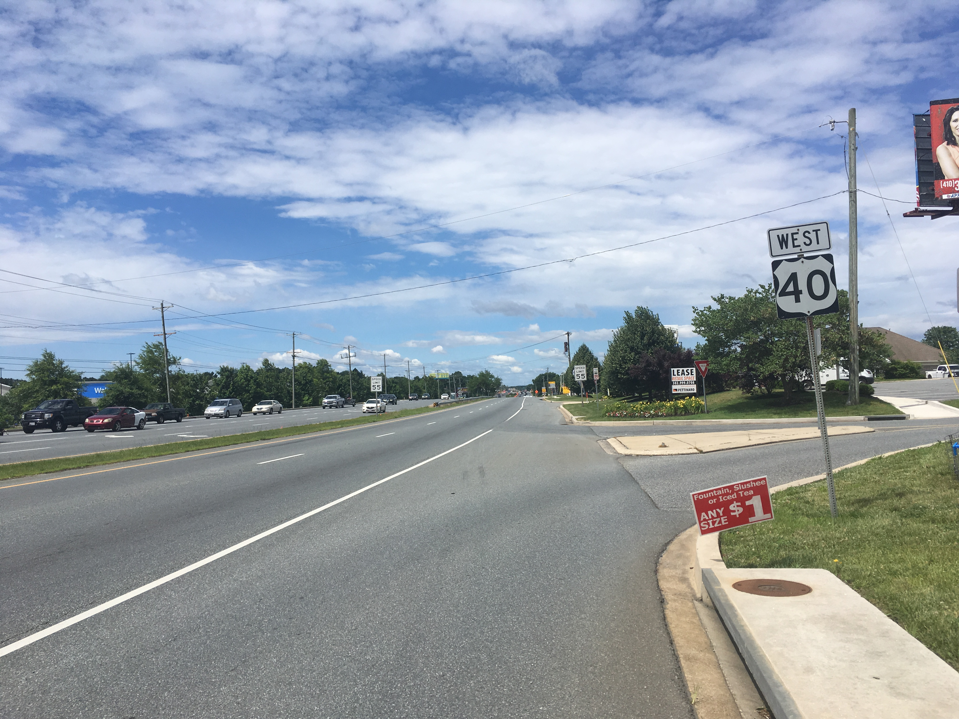 Westbound U.S. Route 40 (Pulaski Highway) past the intersection with the eastern terminus of Maryland Route 781 (Delancy Road) in Elkton, Maryland